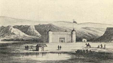 The first Fort Nez Percés, built in 1818.